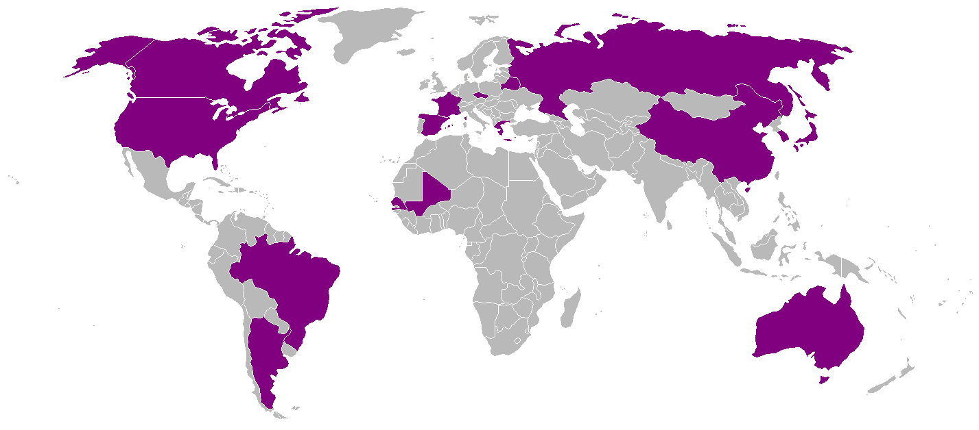 Les nations représentées au Championnat du monde de basket féminin 2010 Shows teams of FIBA basketball World Championship for Women 2010 on a world map.